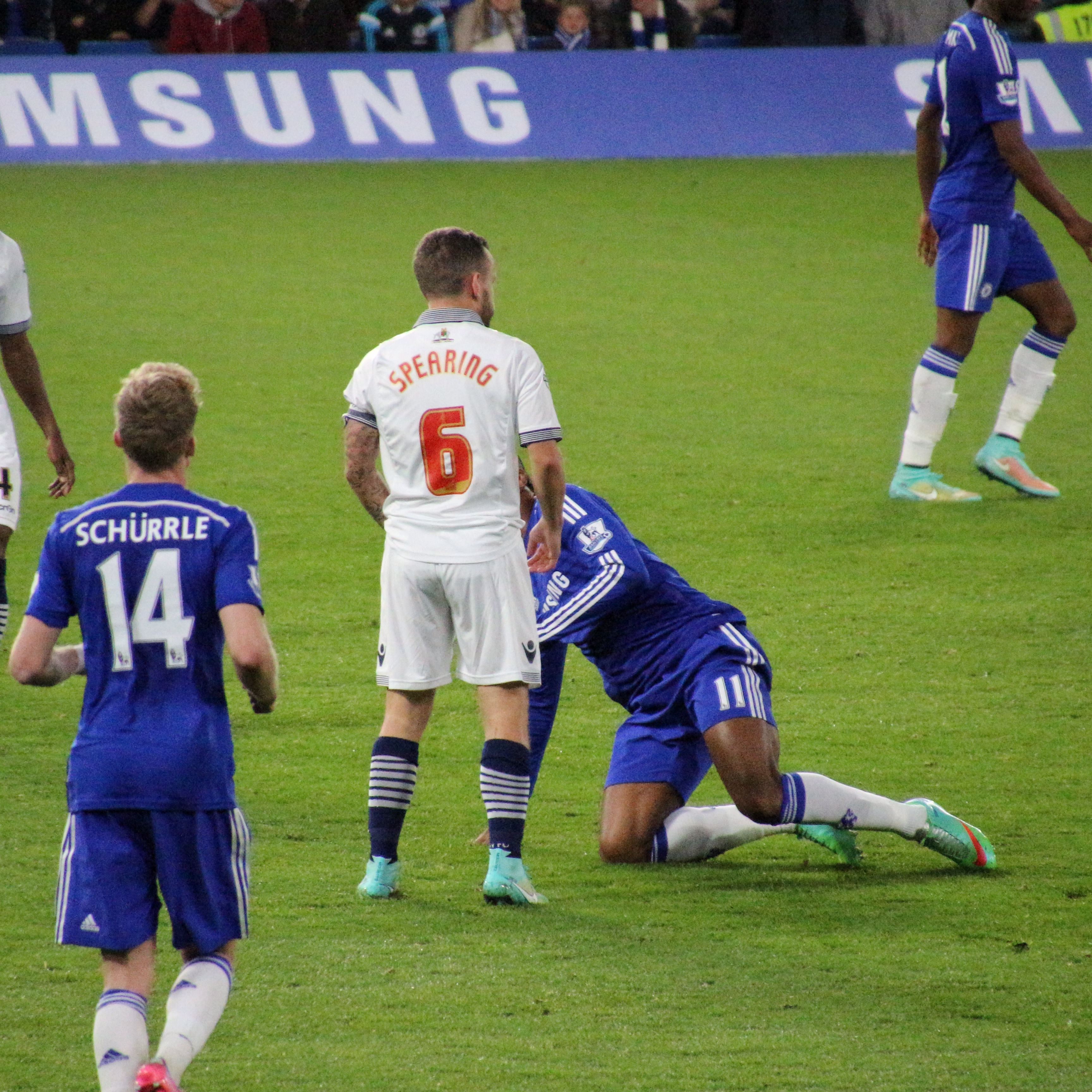 Chelsea 2 Bolton Wanderers 1 Chelsea progress to the next round of the Capital One cup